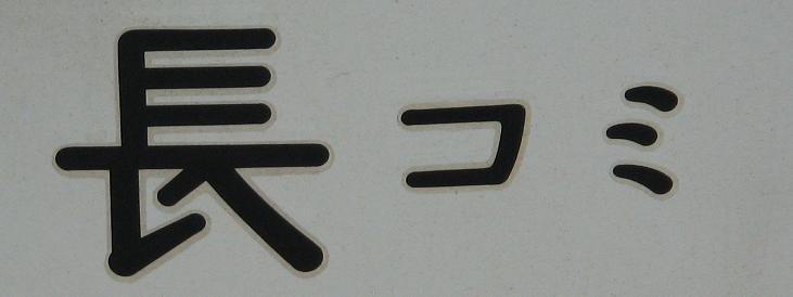 Symbol of JR East Koumi Line Office, marked on its rolling stock